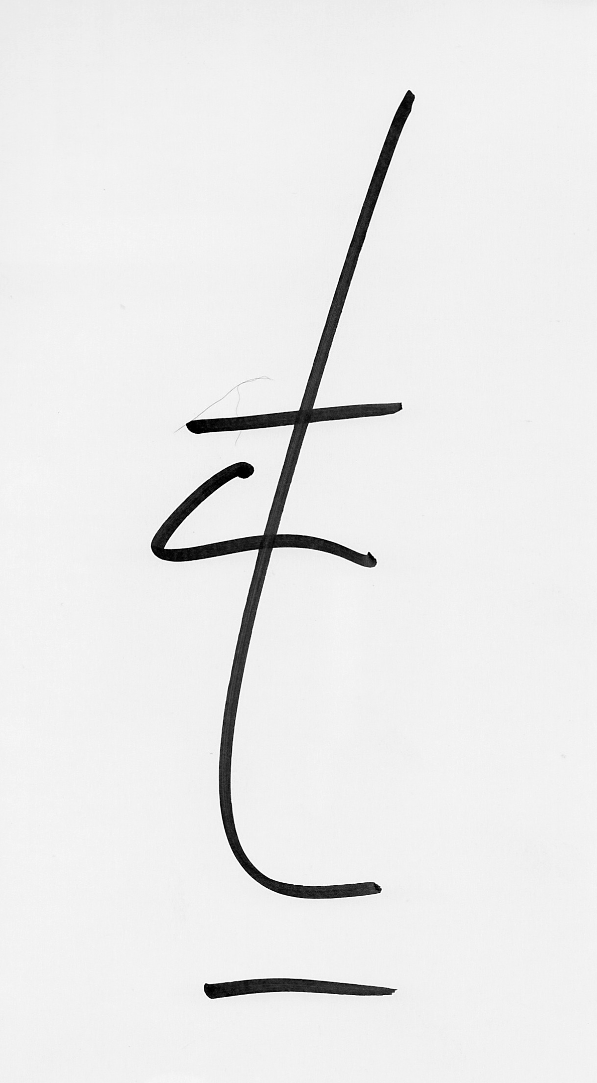 Autograph of Anton Corbijn